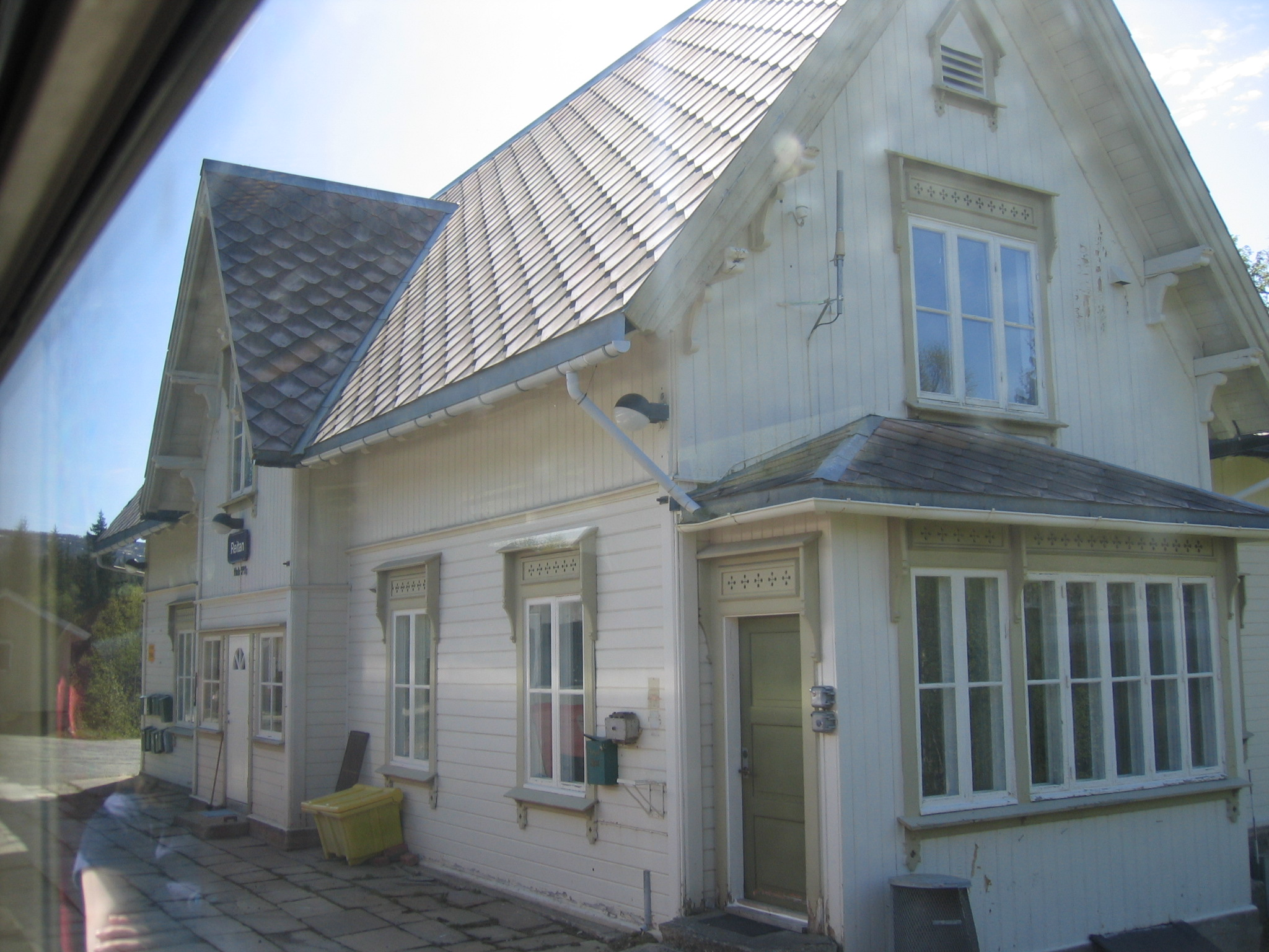 Reitan railway station in Sør-Trøndelag, Norway